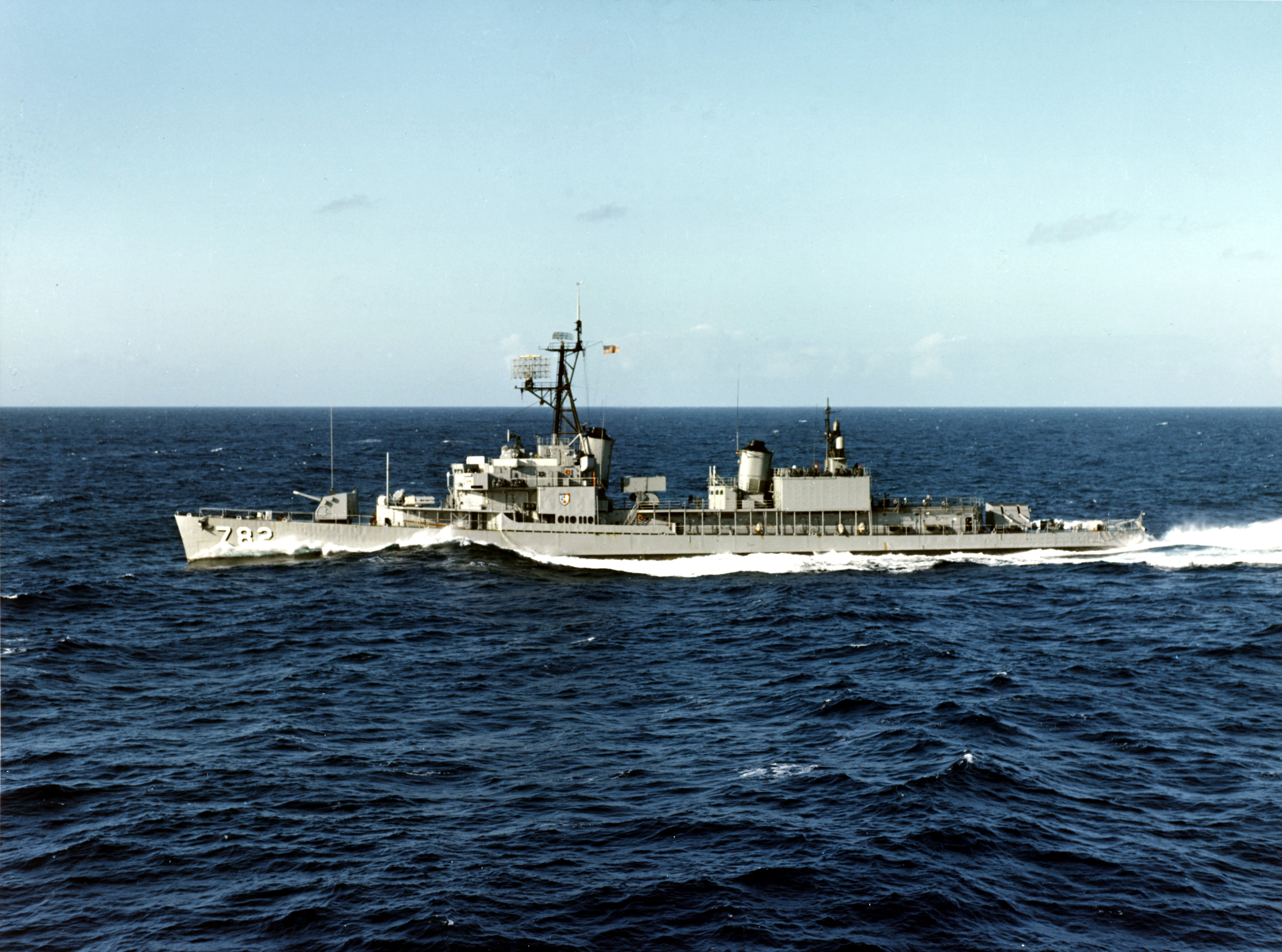 The U.S. Navy destroyer USS Rowan (DD-782) underway in the Western Pacific, circa early 1965. Note her FRAM I modifications: Mk 32 torpedo launchers, SPS-37 radar, ASROC launcher and DASH hangar.